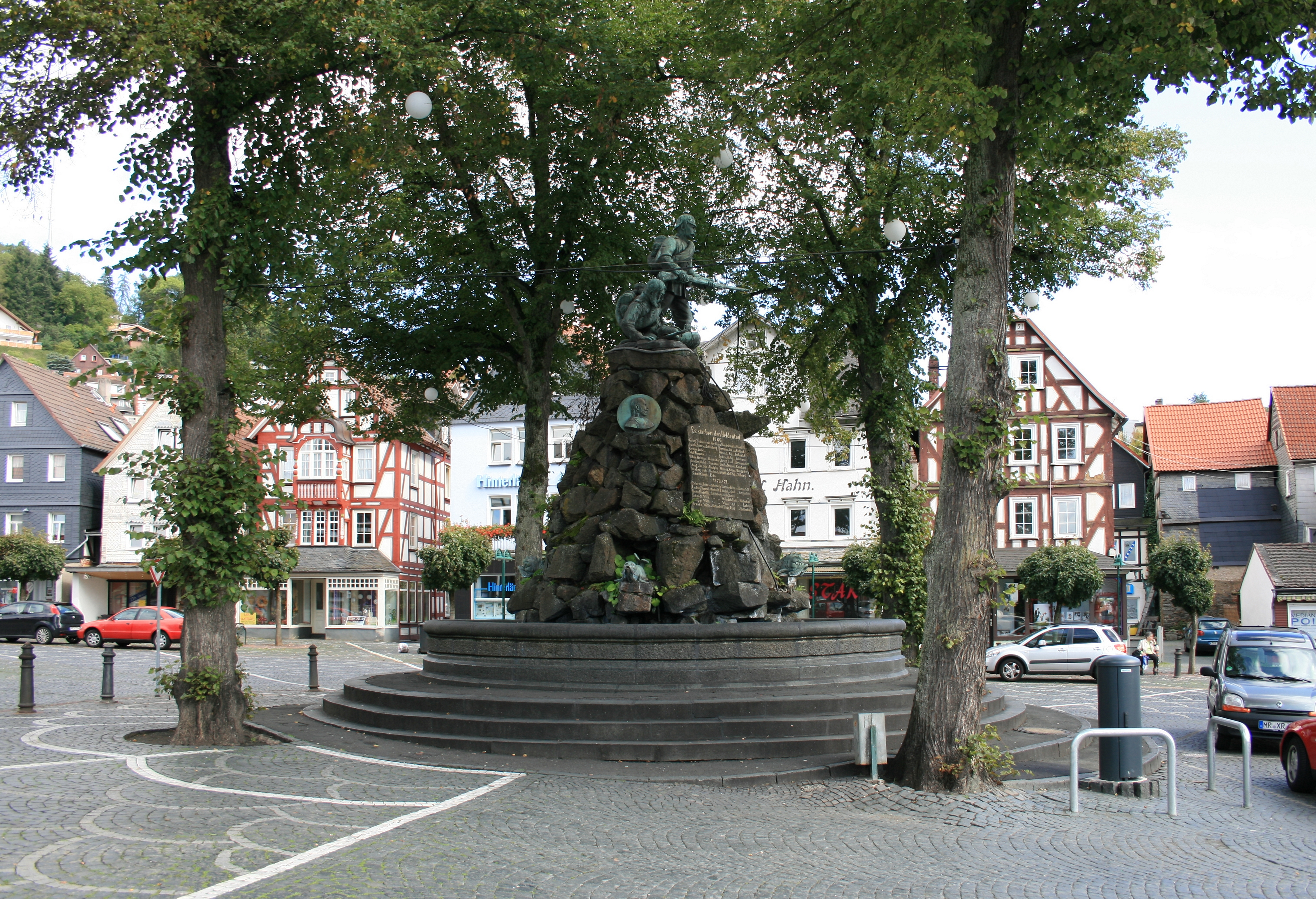 Germany, Hesse, Biedenkopf/Lahn: district war memorial fountain on the market square